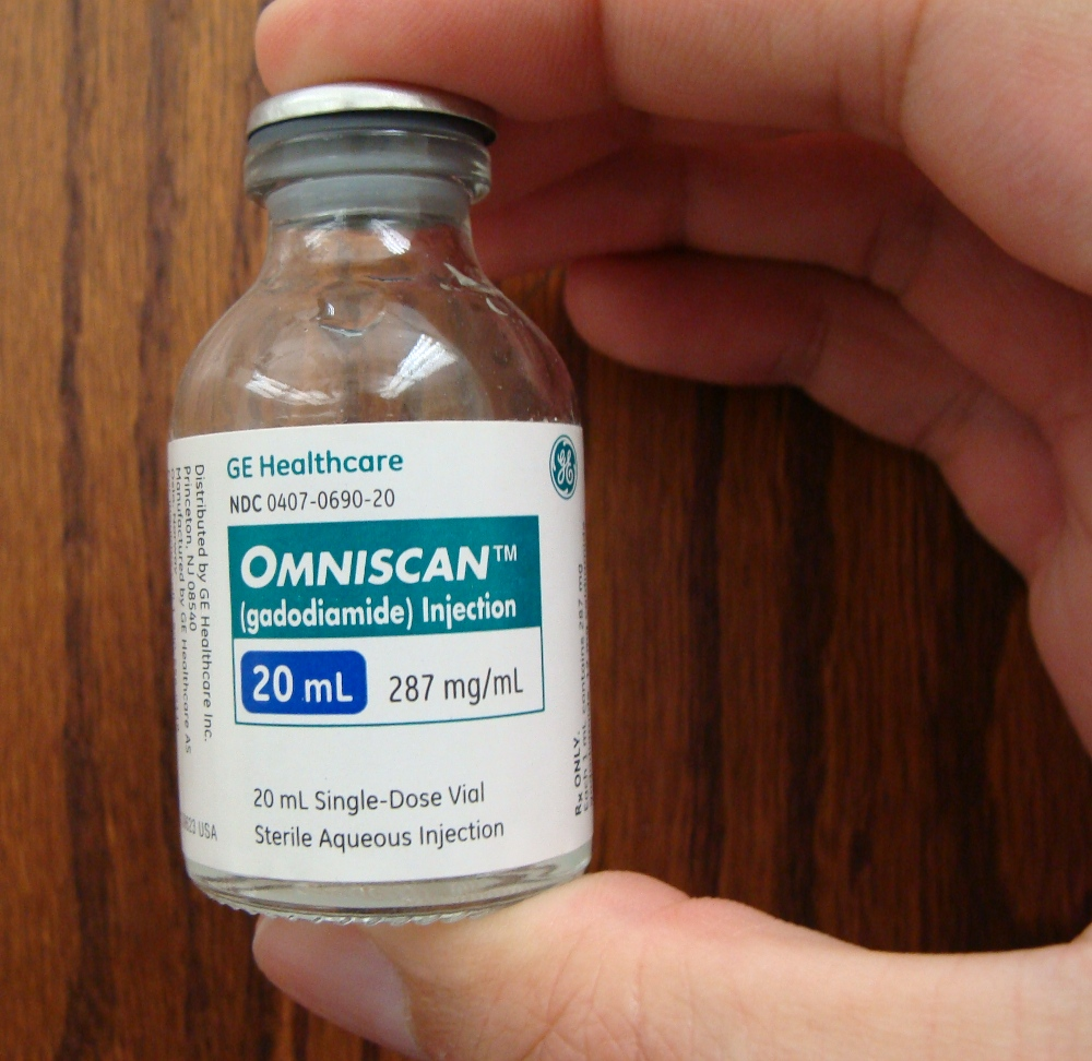 A bottle of Omniscan contrast agent, from my own office. I use it to test phantoms.